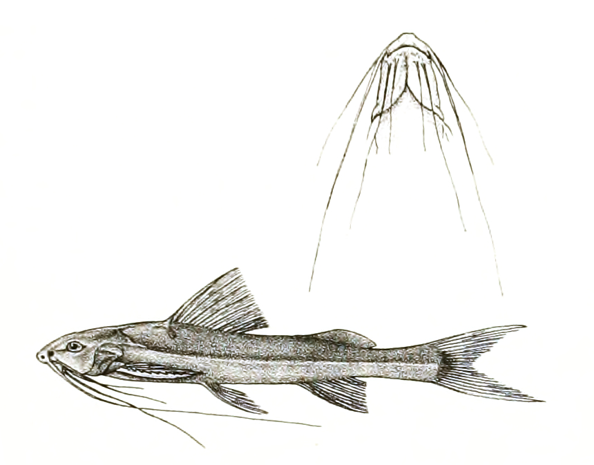 The species names / identity need verification - original names from plate are included here. The original plates showed the fishes facing right and have been flipped here. Nangra buchanani